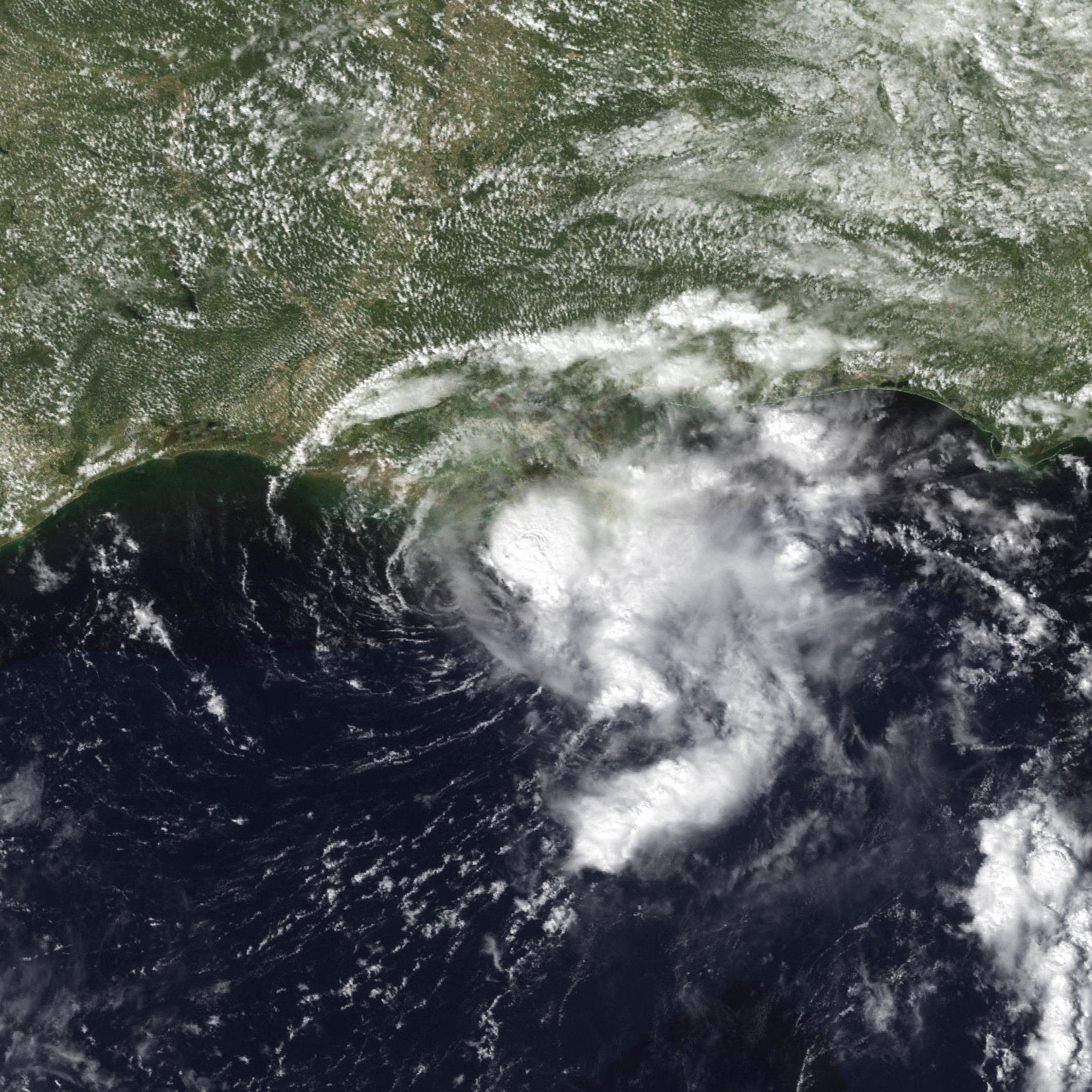 Tropical Storm Hermine near peak intensity off the Louisiana coast on September 19, 1998